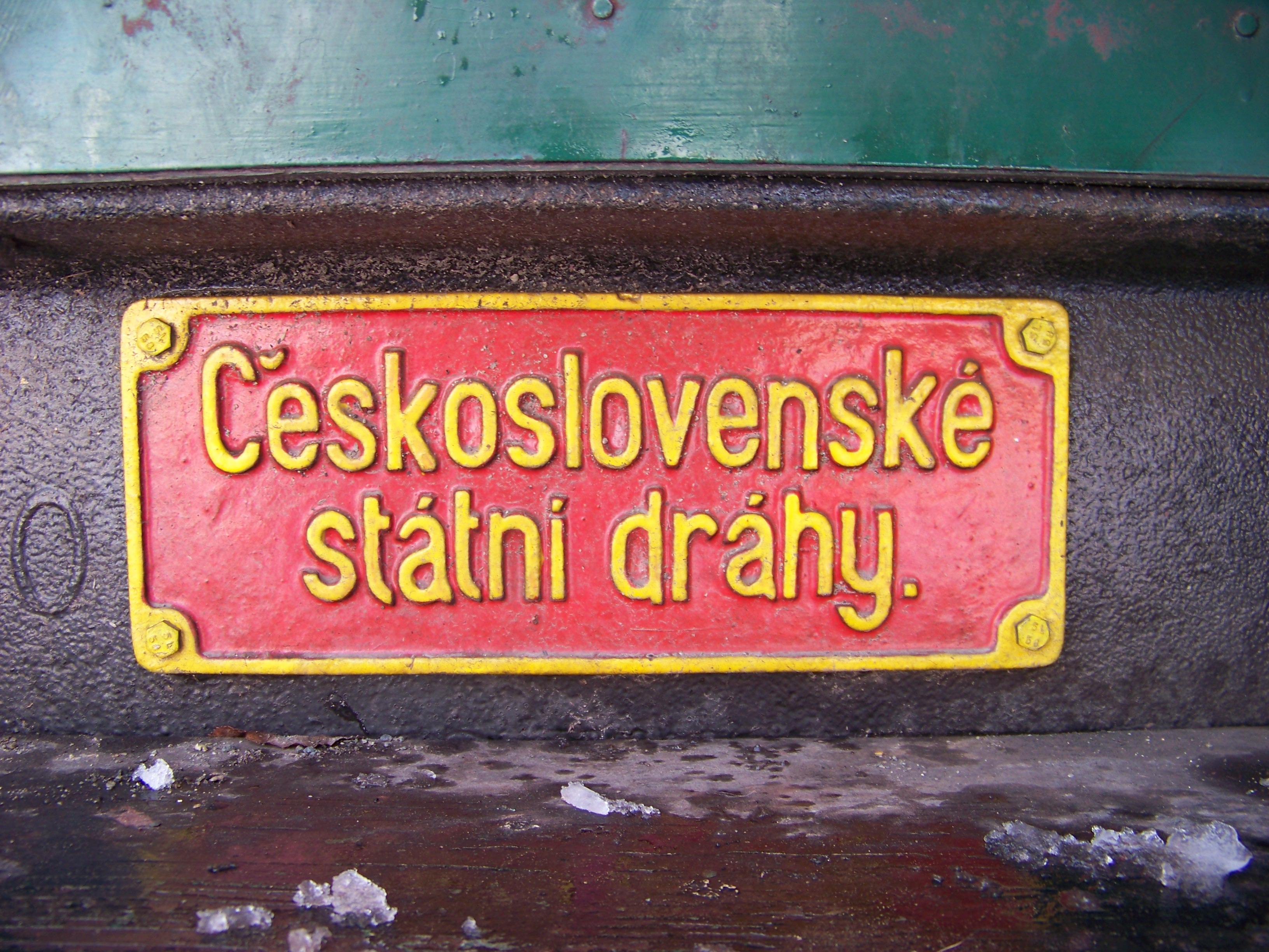 A detail of a heritage railway coach of Křivoklát expres (Beroun, Beroun District, Central Bohemian Region, the Czech Republic).